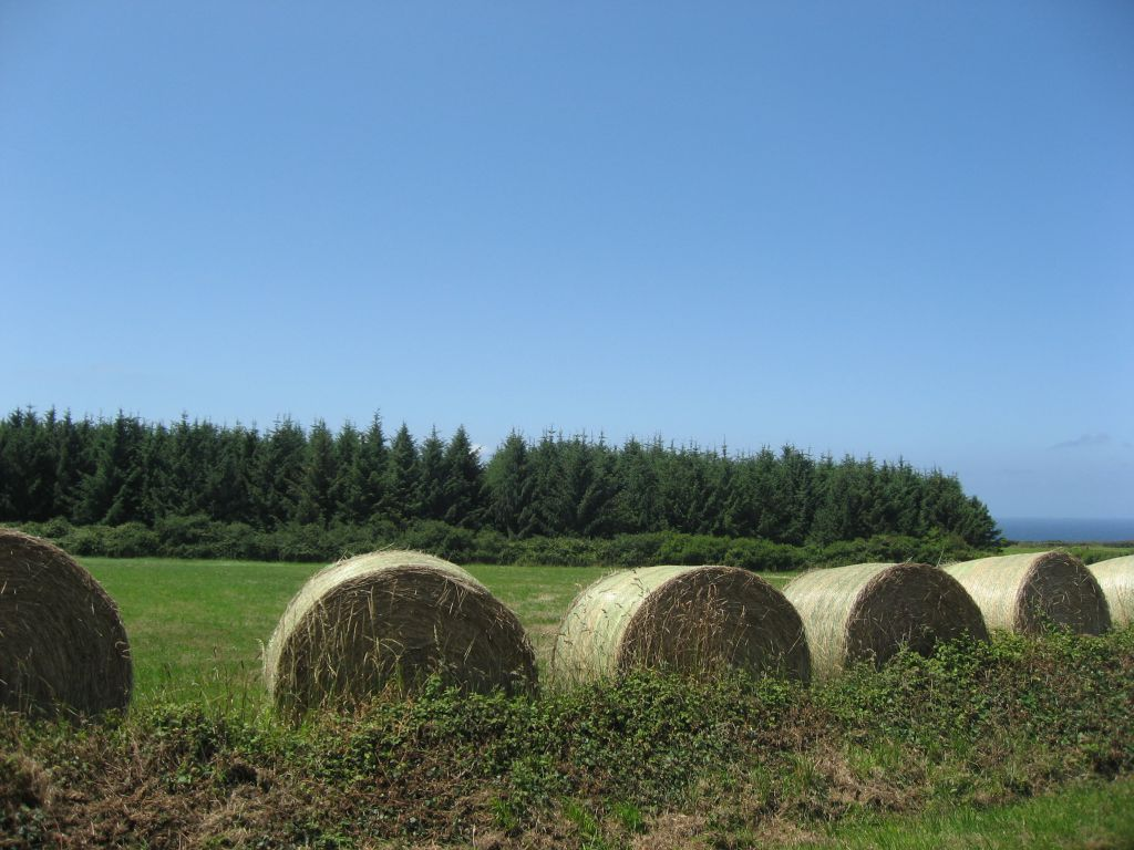 Conifers in forest plantations at Cap-Sizun